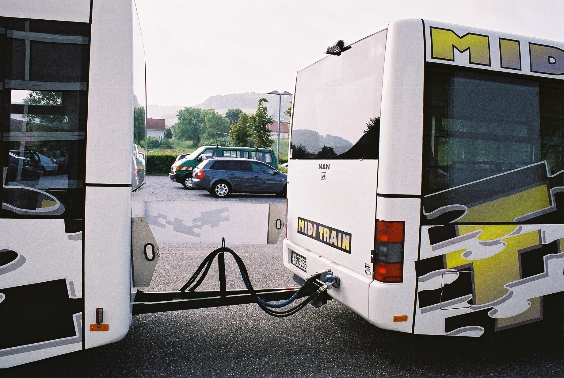 MIDI TRAIN - MAN-Göppel NM 2x3.3 bus (probably reg. A-MG 135) with Göppel G10 bus trailer in Neckarsulm, Germany. Göppel body bus with MAN A35 chassis. E. Zartmann GmbH & Co. KG - Stadtbus Neckarsulm from Neckarsulm operator.